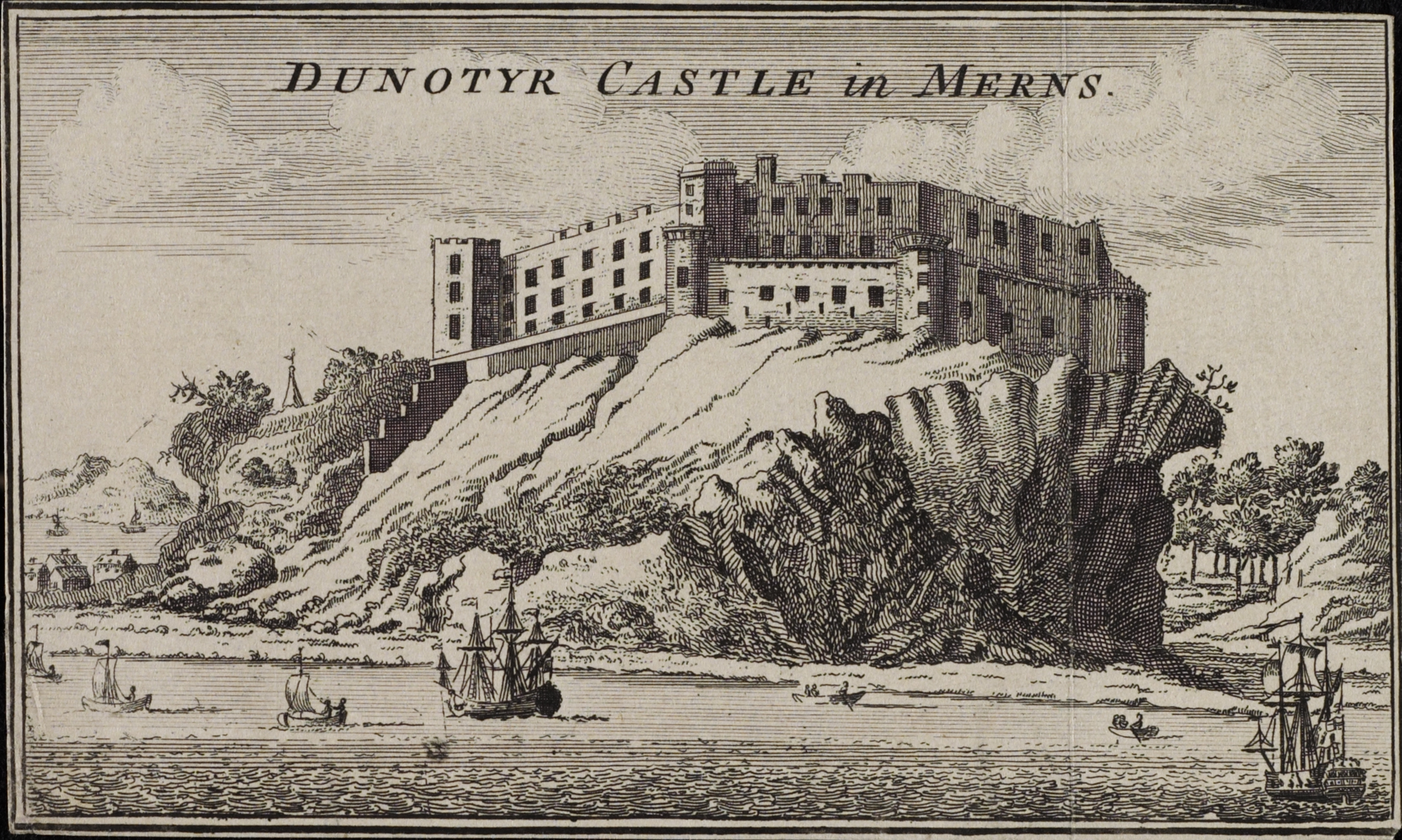 Dunotyr Castle in Merns